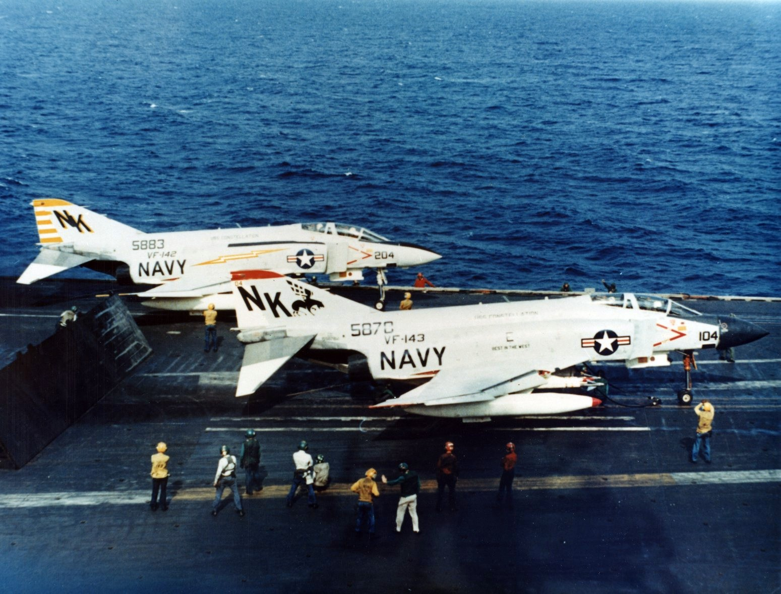 Two U.S. Navy McDonnell Douglas F-4J Phantom II fighters (BuNo 155870, 155883) are prepared for launching from the aircraft carrier USS Constellation (CVA-64) in 1969/70 off Vietnam. 155870 was assigned to Fighter Squadron VF-143 Pukin Dogs, 155838 to VF-142 Ghostriders. Both squadrons were assigned to Carrier Air Wing 14 aboard the USS Constellation from 11 August 1969 to 8 May 1970.